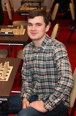 Maxim Matlakov (chess player)